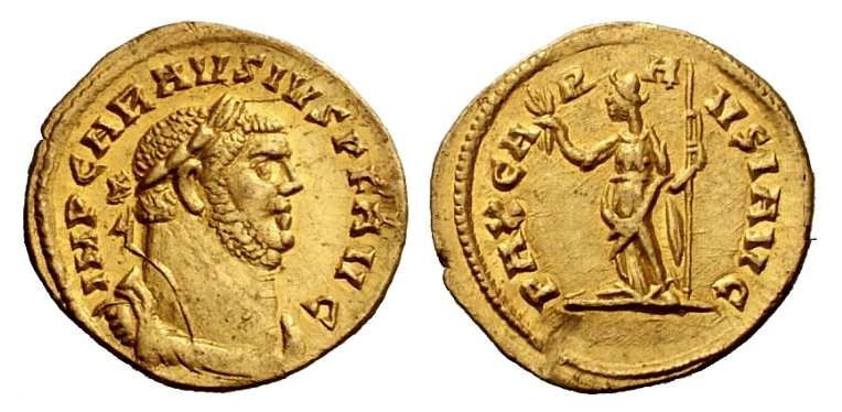 Carausius, AV aureus. London mint, 286-287, 4.20 g. IMP CARAVSIVS P F AVG, laureate, draped, cuirassed bust right. PAX CARAVSI AVG, Pax standing left, holding olive-branch and vertical sceptre. RIC 5; Depeyrot 2/5; Shiel 4; Calicó 4782.